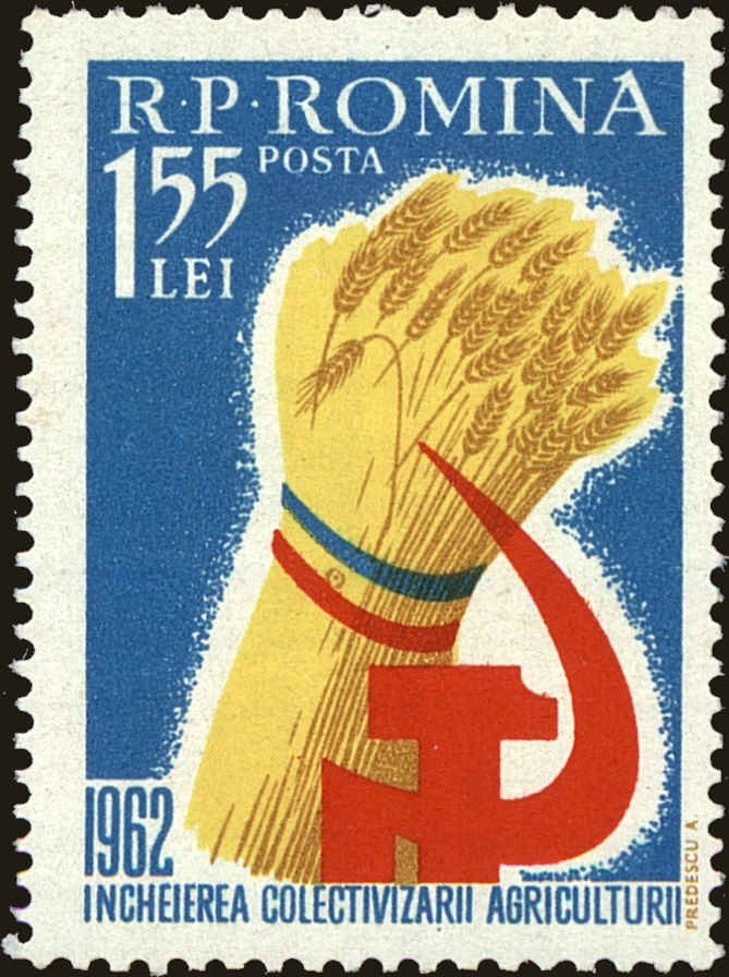 Completion of Agricultural Collectivisation Project